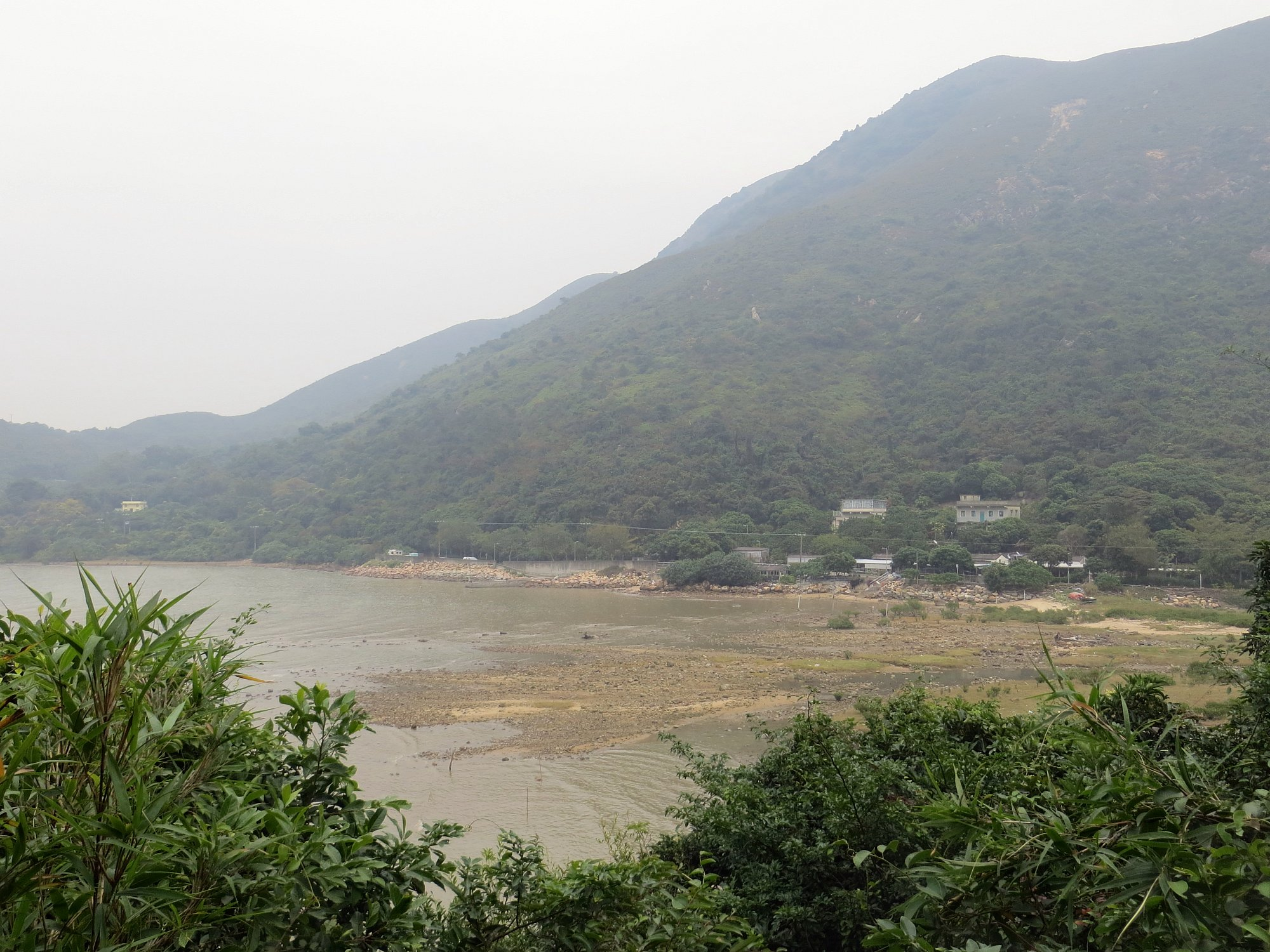 Sham Wut village on the northern shore of Lantau Island, Hong Kong. 中文（香港）: 香港大嶼山北部的深屈村。